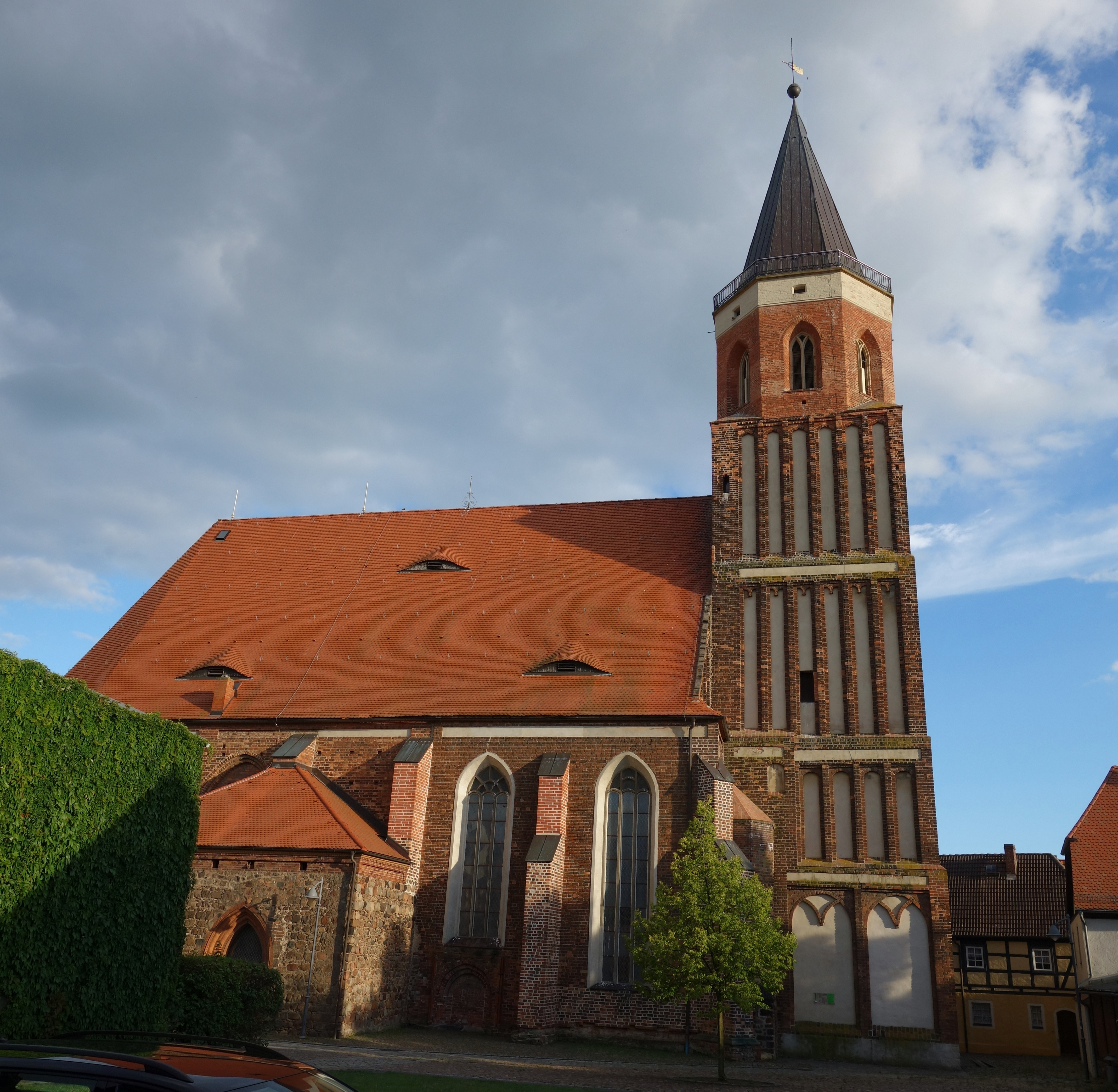 Northern view of church in Calau municipality, Oberspreewald-Lausitz district, Brandenburg state, Germany.